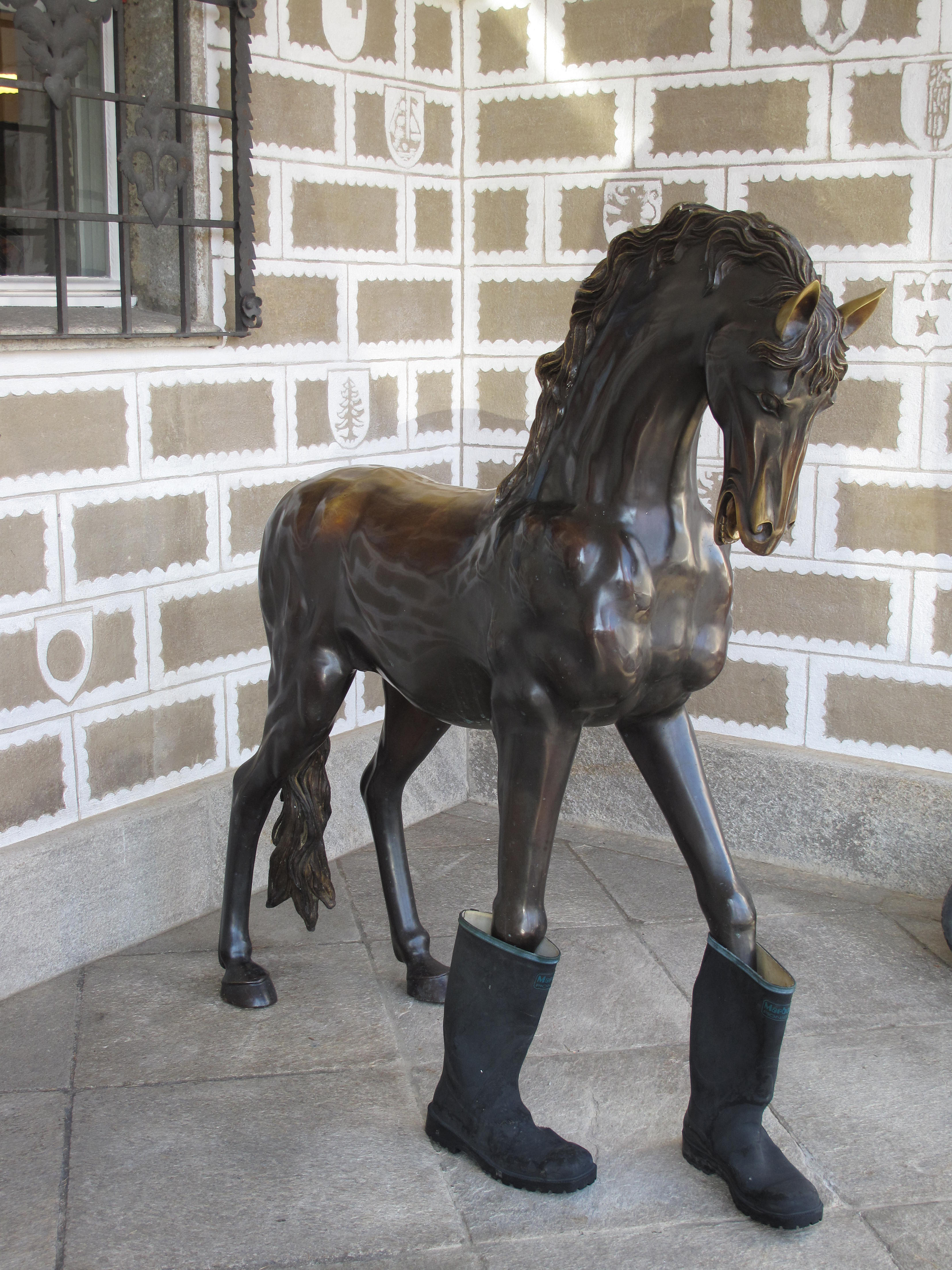 Roman Signer, Switzerland, Graubuenden, Zuoz - in front of the entrance of hotel Castell